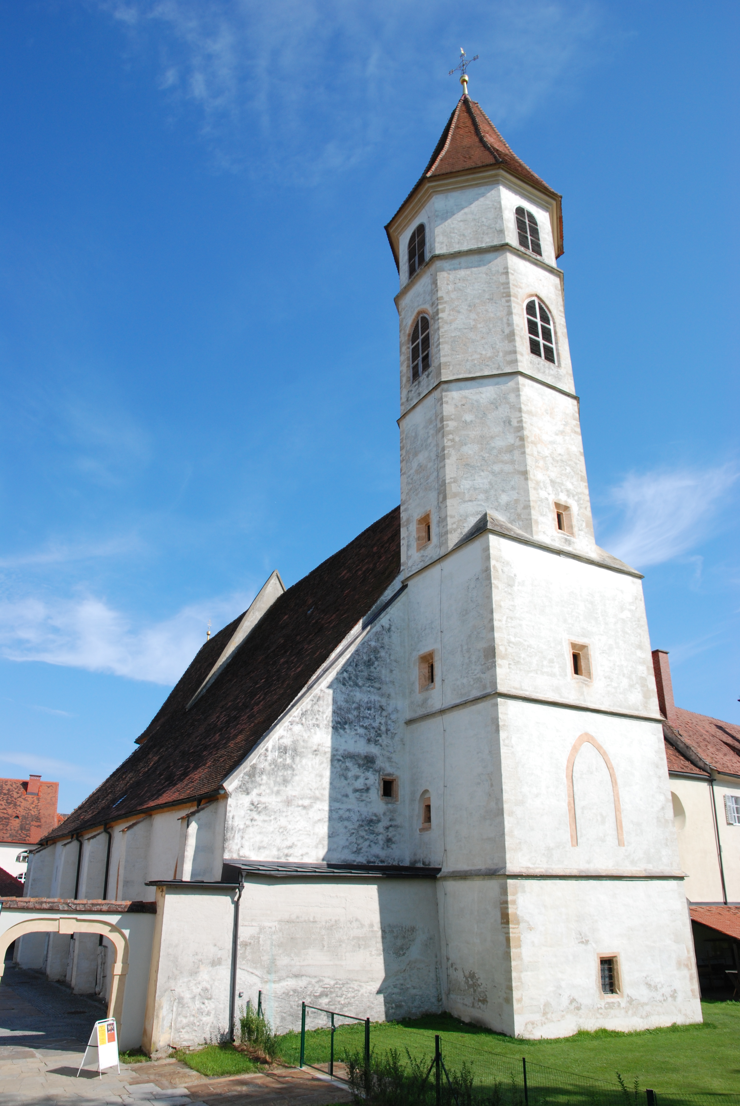 Stadtpfarrkirche Bad Radkersburg